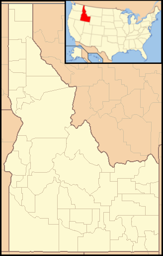 Locator Map of Idaho, United States